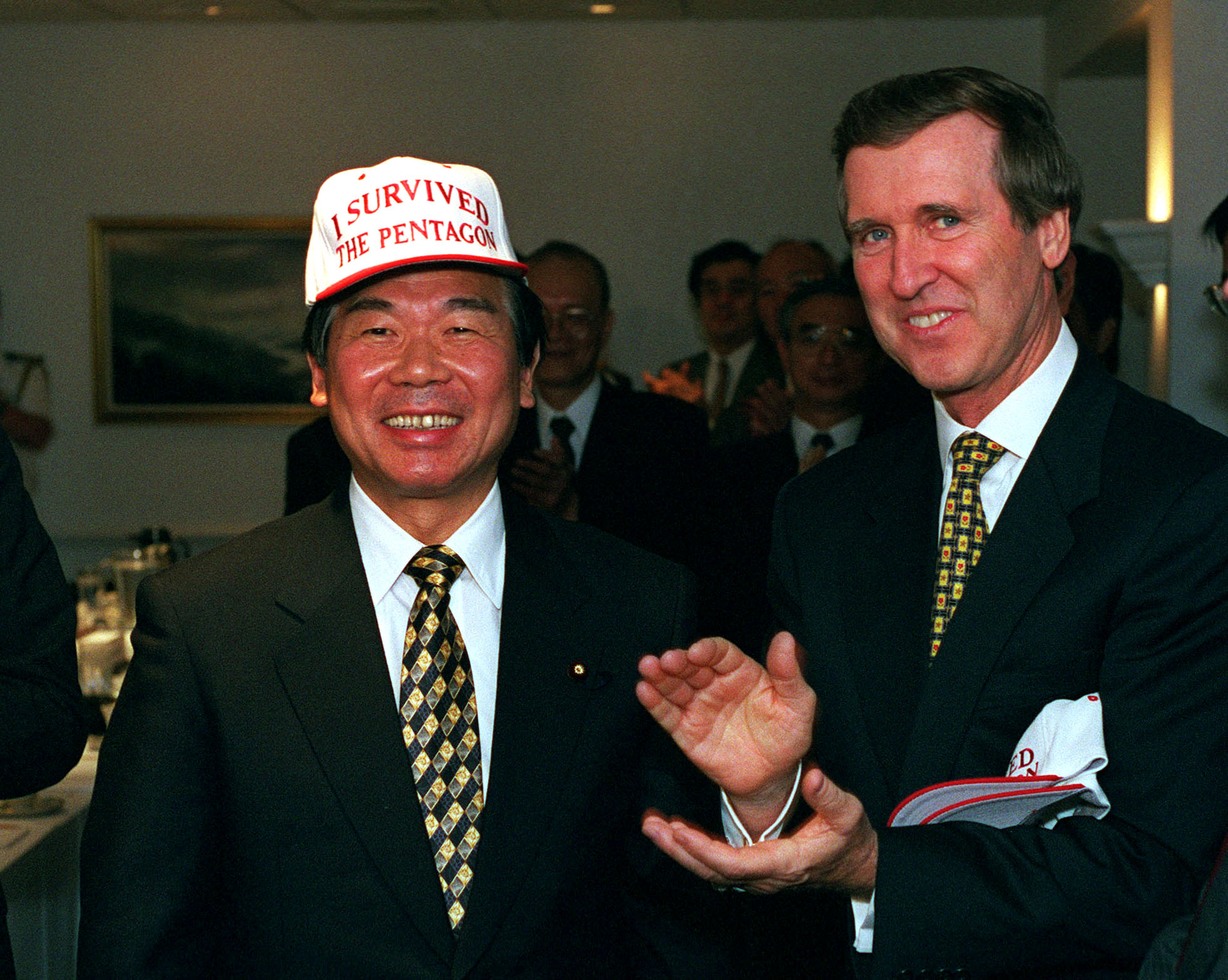 Director General of the Japan Defense Agency Fukushiro Nukaga (left) models a baseball cap presented to him by Secretary of Defense William S. Cohen (right) in the Pentagon on Sept. 21, 1998. The slogan: "I Survived the Pentagon," is a reference to the accident earlier in the day when a steel barricade accidentally rose under Nukaga's limousine as it passed through a security check point, seriously damaging the vehicle and slightly injuring its occupants. Cohen presented caps to each survivor before sitting down to discuss a range of security issues of interest to both nations.